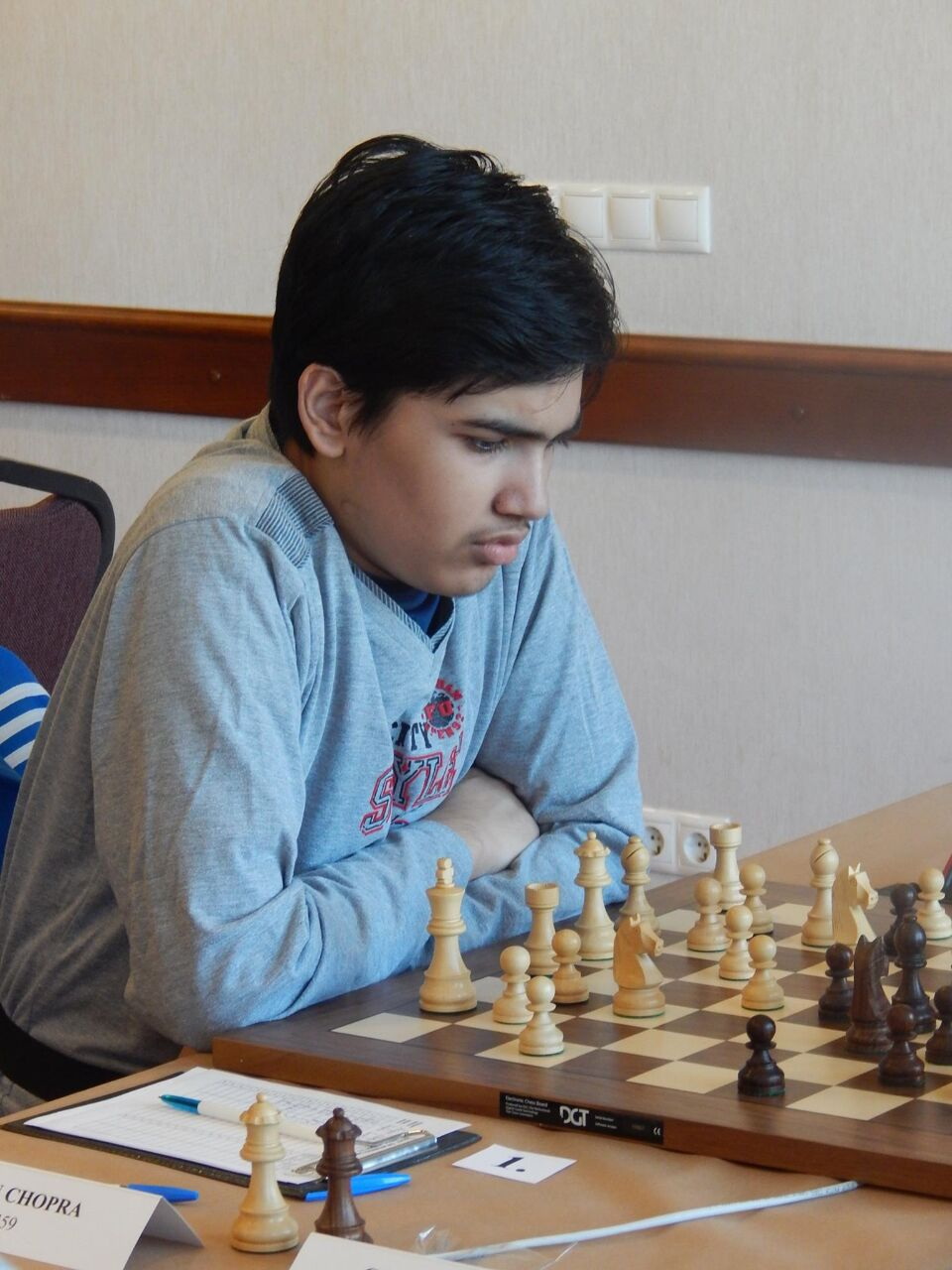 Aryan Chopra